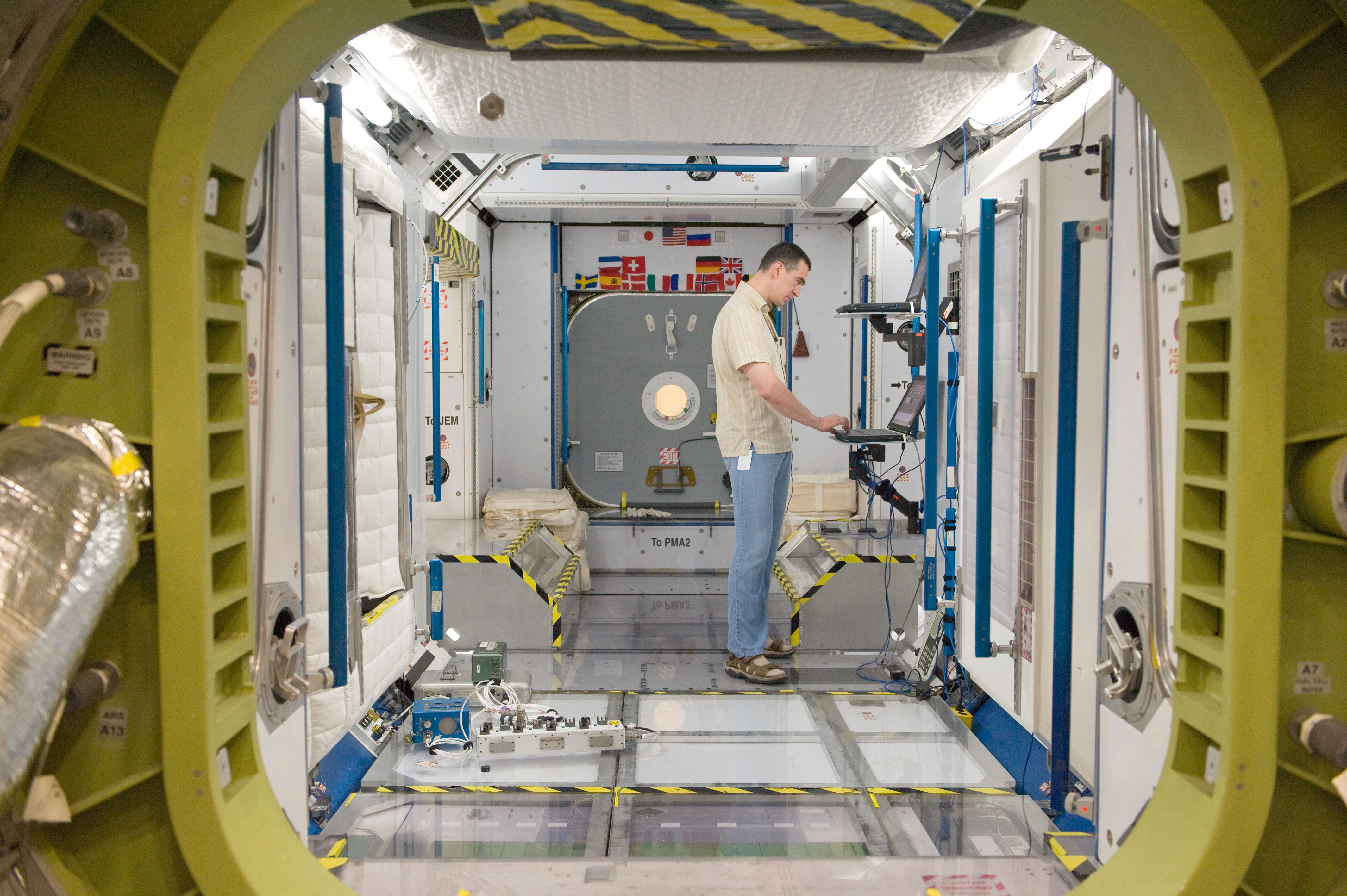 Russian cosmonaut Anatoly Ivanishin, Expedition 29/30 flight engineer, participates in a routine operations training session in an International Space Station mock-up/trainer in the Space Vehicle Mock-up Facility at NASA's Johnson Space Center.